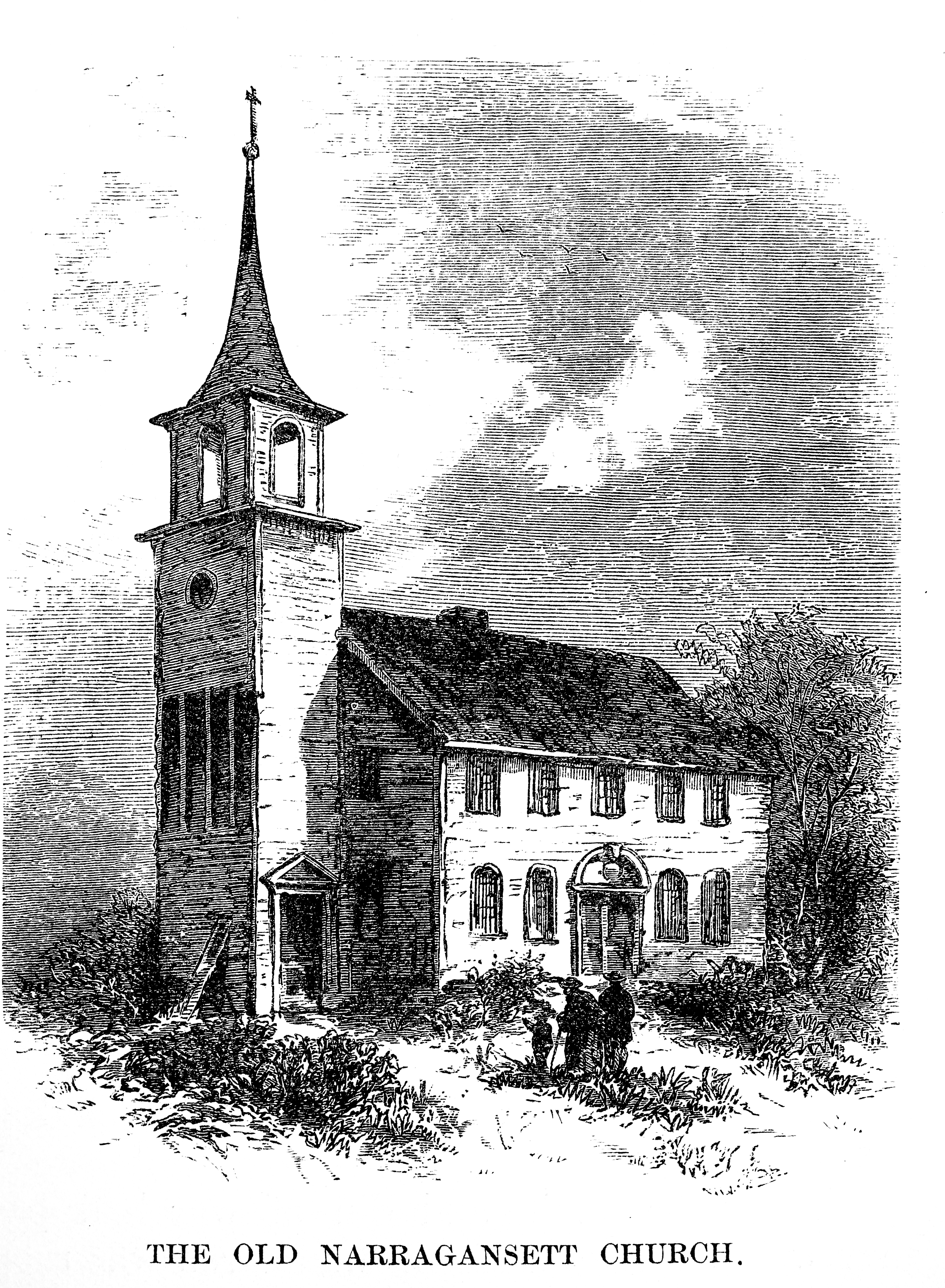 Old Narragansett Church, also known as Old St. Paul's Church and St. Paul's Episcopal Church, is a historic Episcopal church located at 60 Church Lane in Wickford, Rhode Island. Source: The History: American Episcopal Church 1587-1883 by William Stevens Perry, Vol 1 (1885), page 595